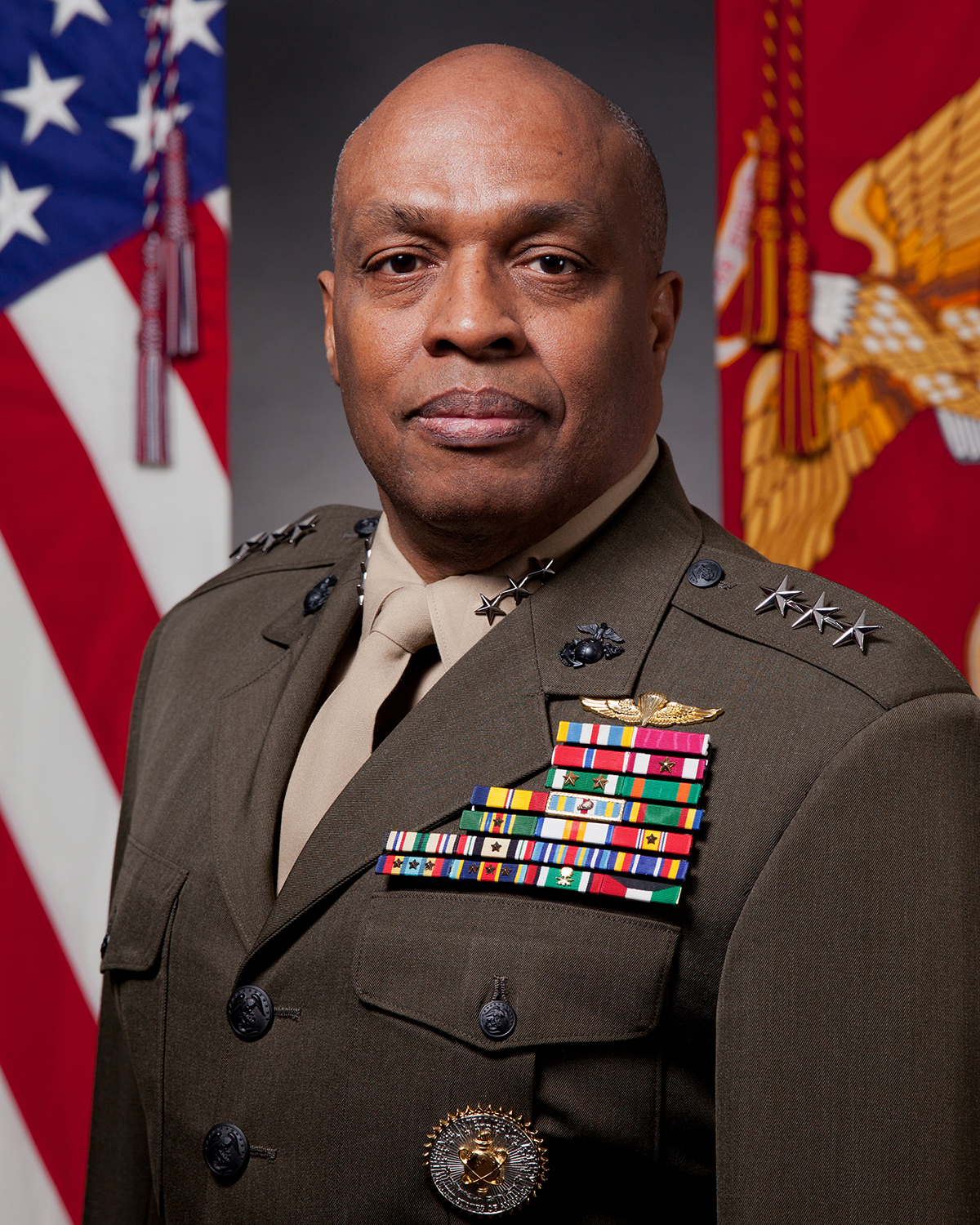 Lieutenant General Vincent R. Stewart ， the 20th Director of the Defense Intelligence Agency and the Commander, Joint Functional Component Command for Intelligence, Surveillance and Reconnaissance